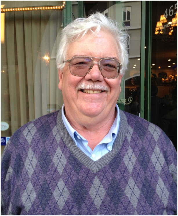 Hank Greely at the Editorial Board summit in 2014.